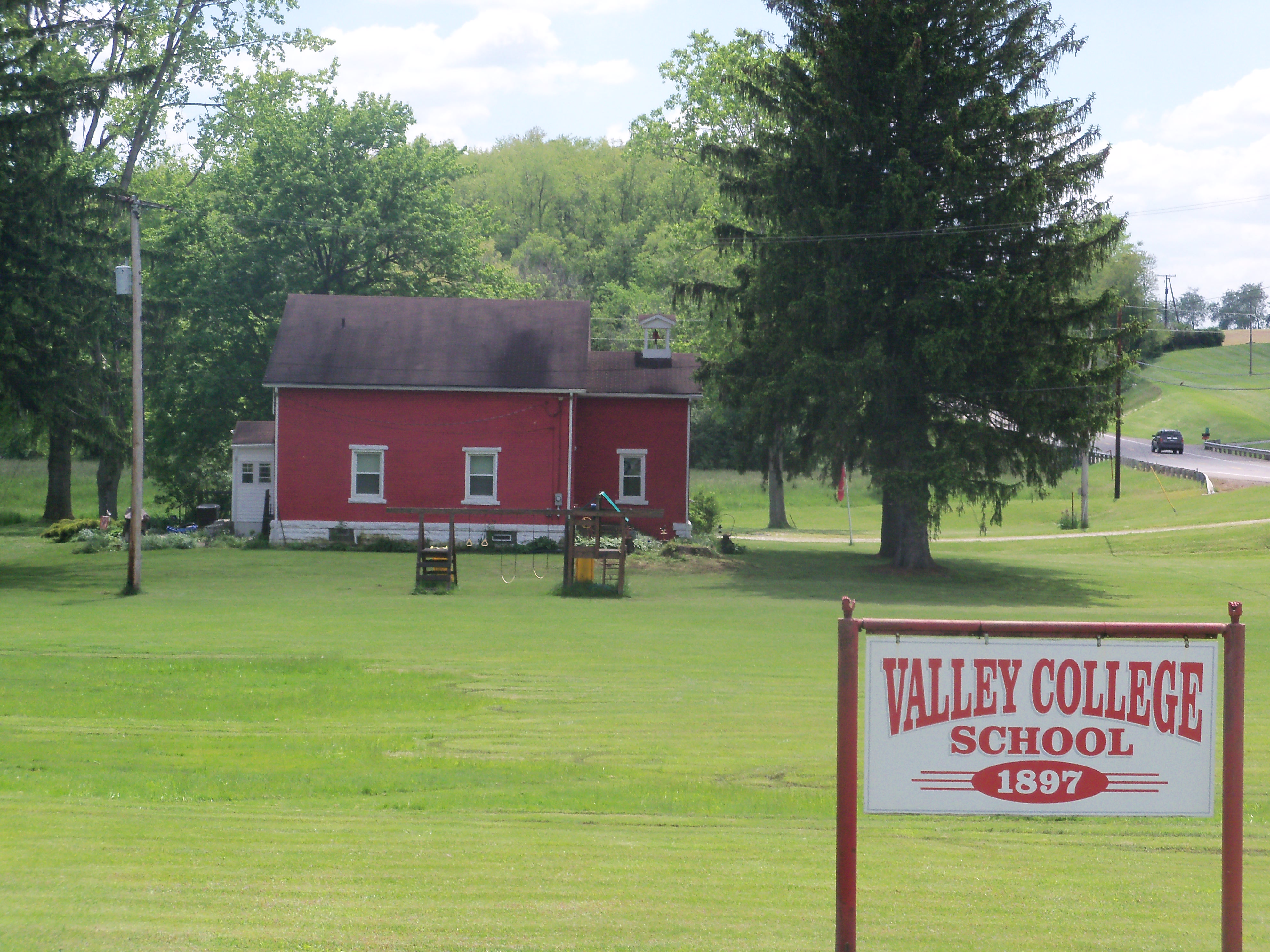 Valley College School, 1897, south of Wooster, Ohio